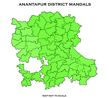 Anantapur district mandals outline map